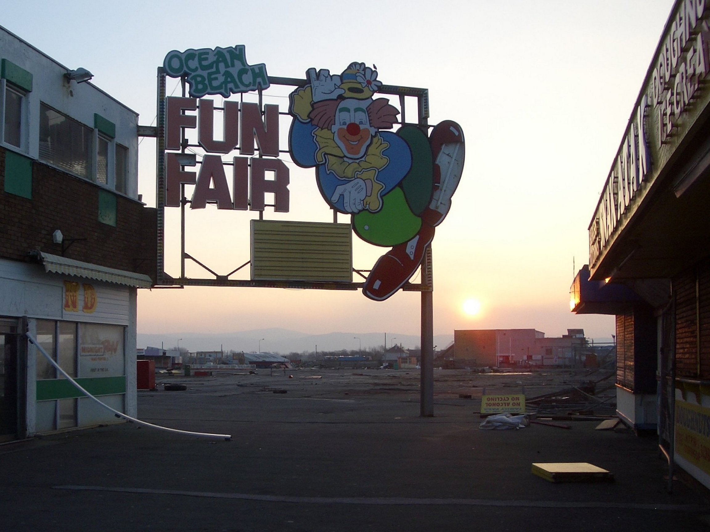 Former Ocean Beach Fun Fair Site, Rhyl, North Wales, UK